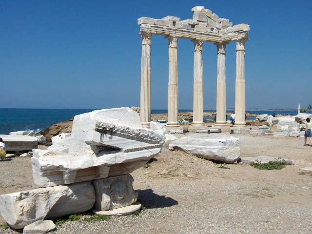 Temple of Apollo, Side, Turkey.